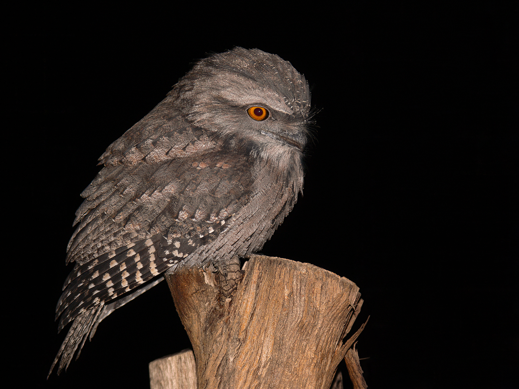 A wild Tawny Frogmouth, Podargus strigoides, image taken at night hence the black background. Taken in south east Australia